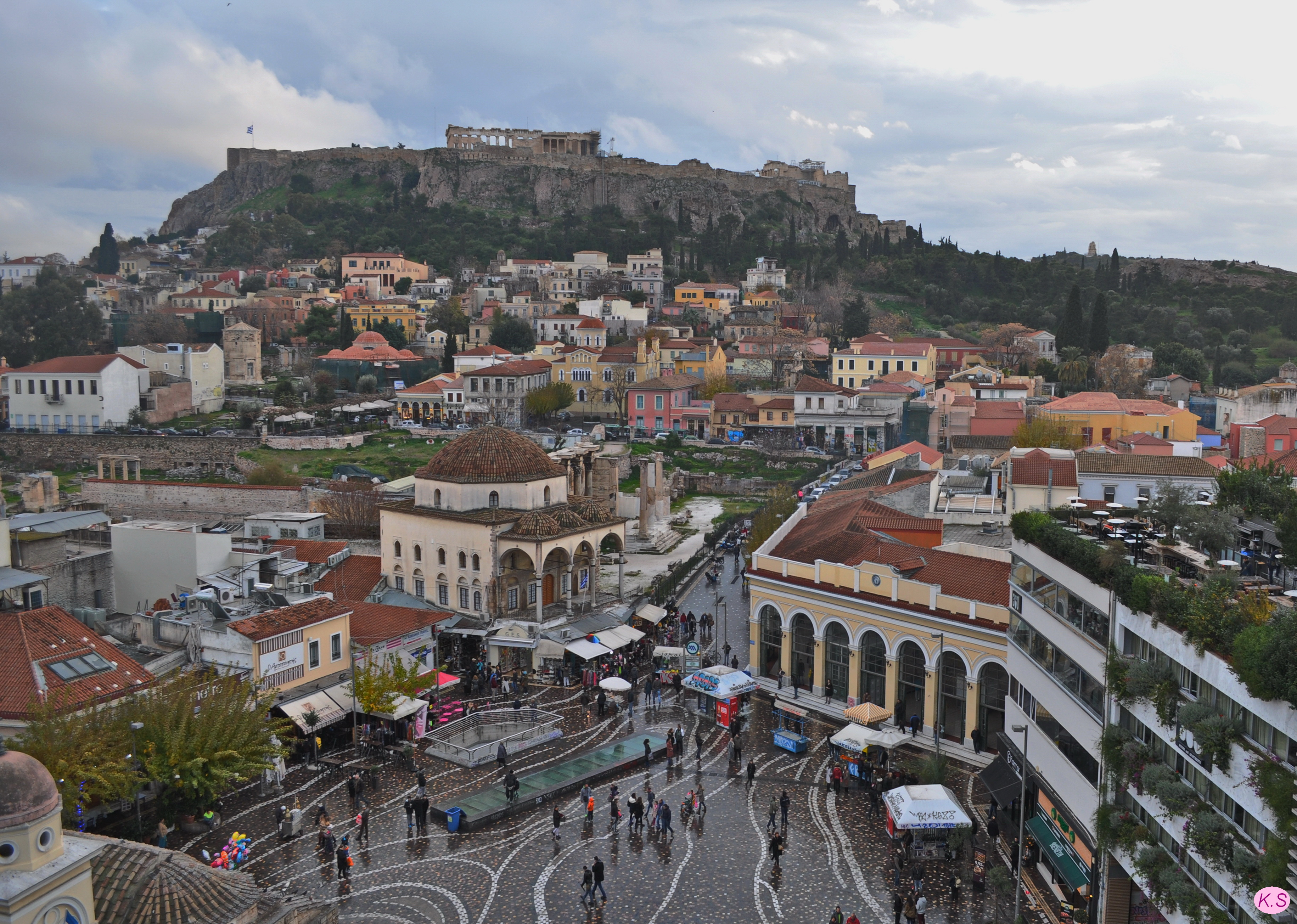 This is a photography of Natura 2000 protected area with ID of cultural interest landscape of cultural interest